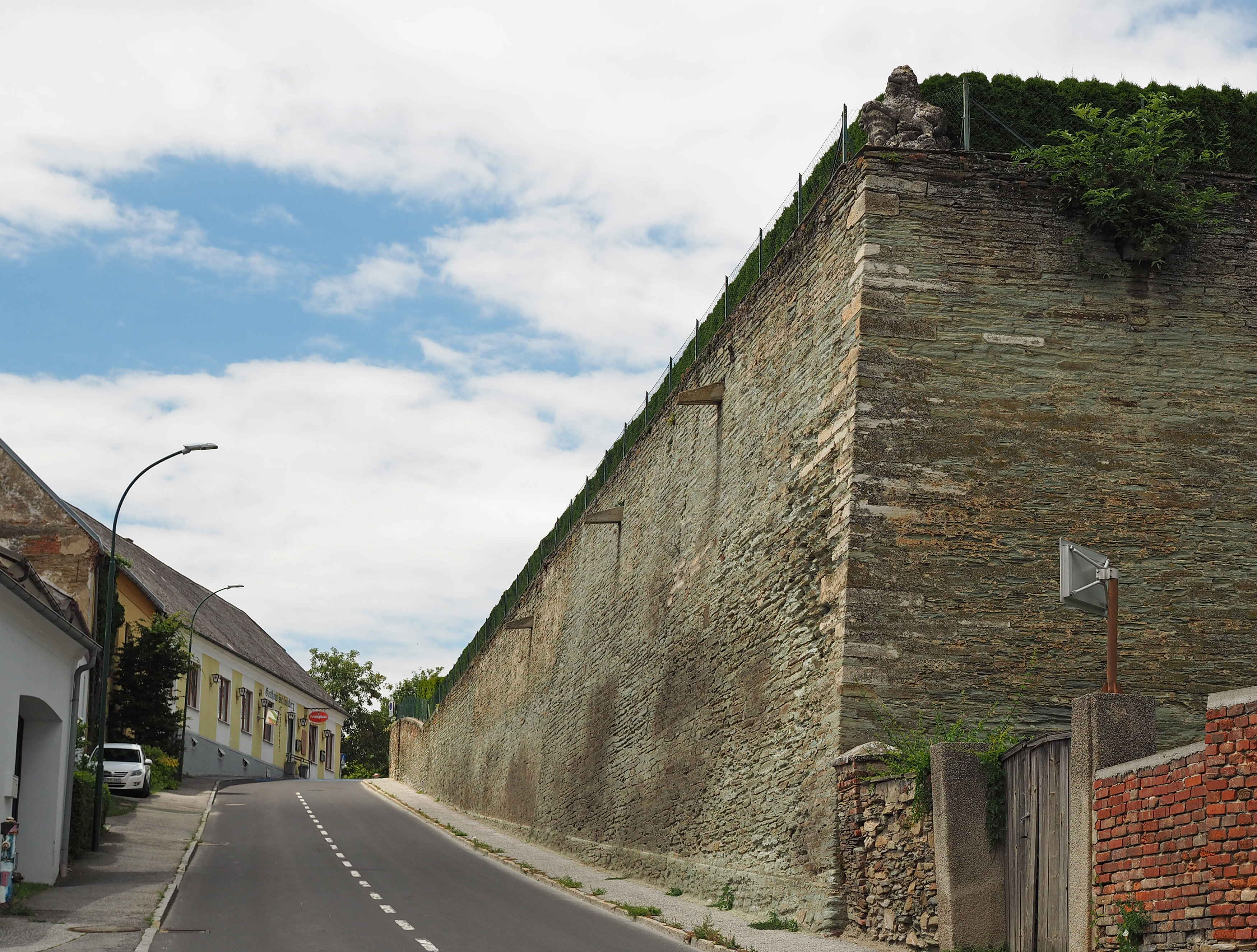 The embankment wall of Rechnitz Castle. Schloßberggasse (Schlossberggasse), 7471 Rechnitz (Burgenland, Austria)